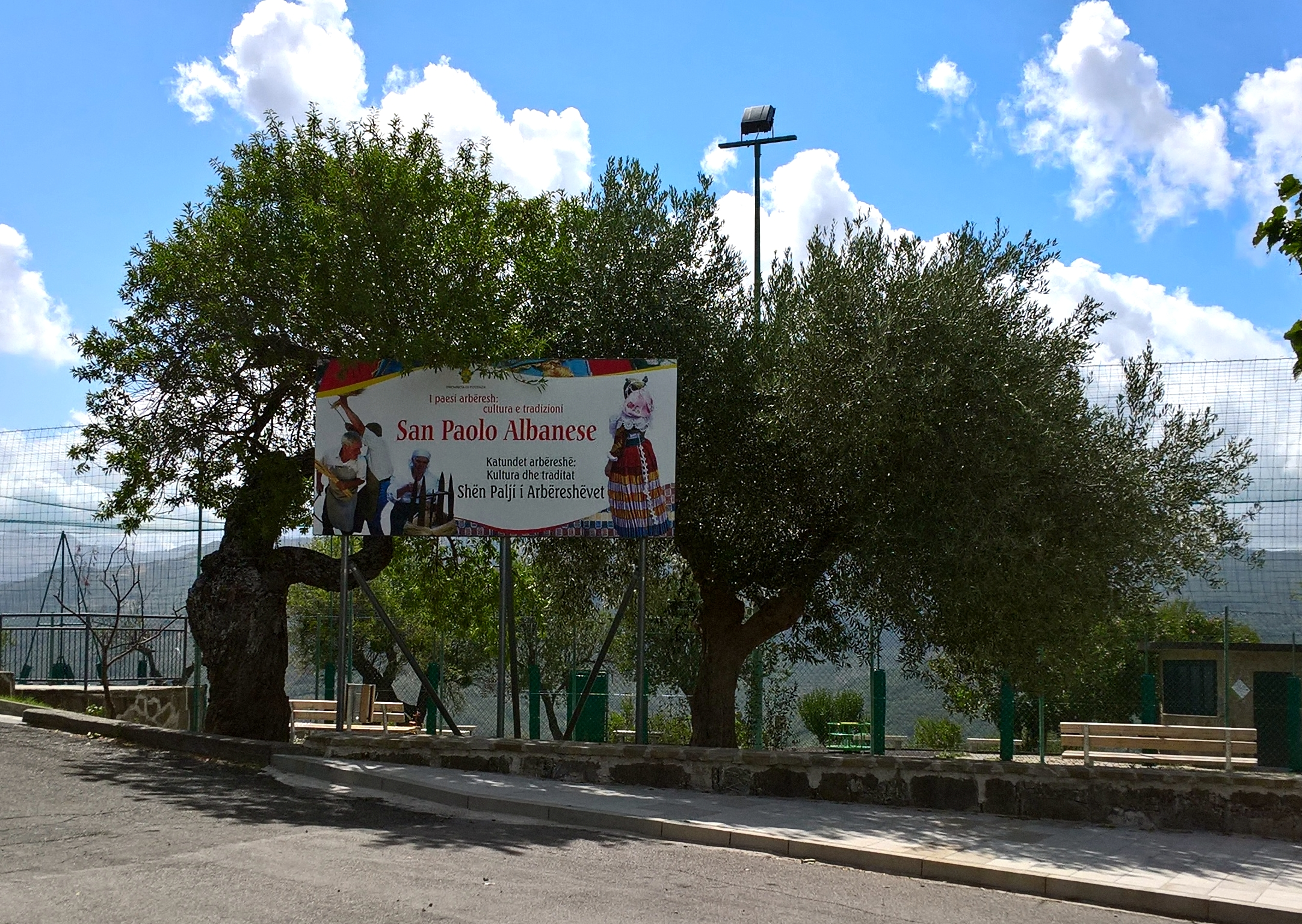 San Paolo Albanese - Welcome sign in Italian and Arbëresh